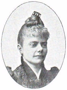 Swedish composer Valborg Aulin